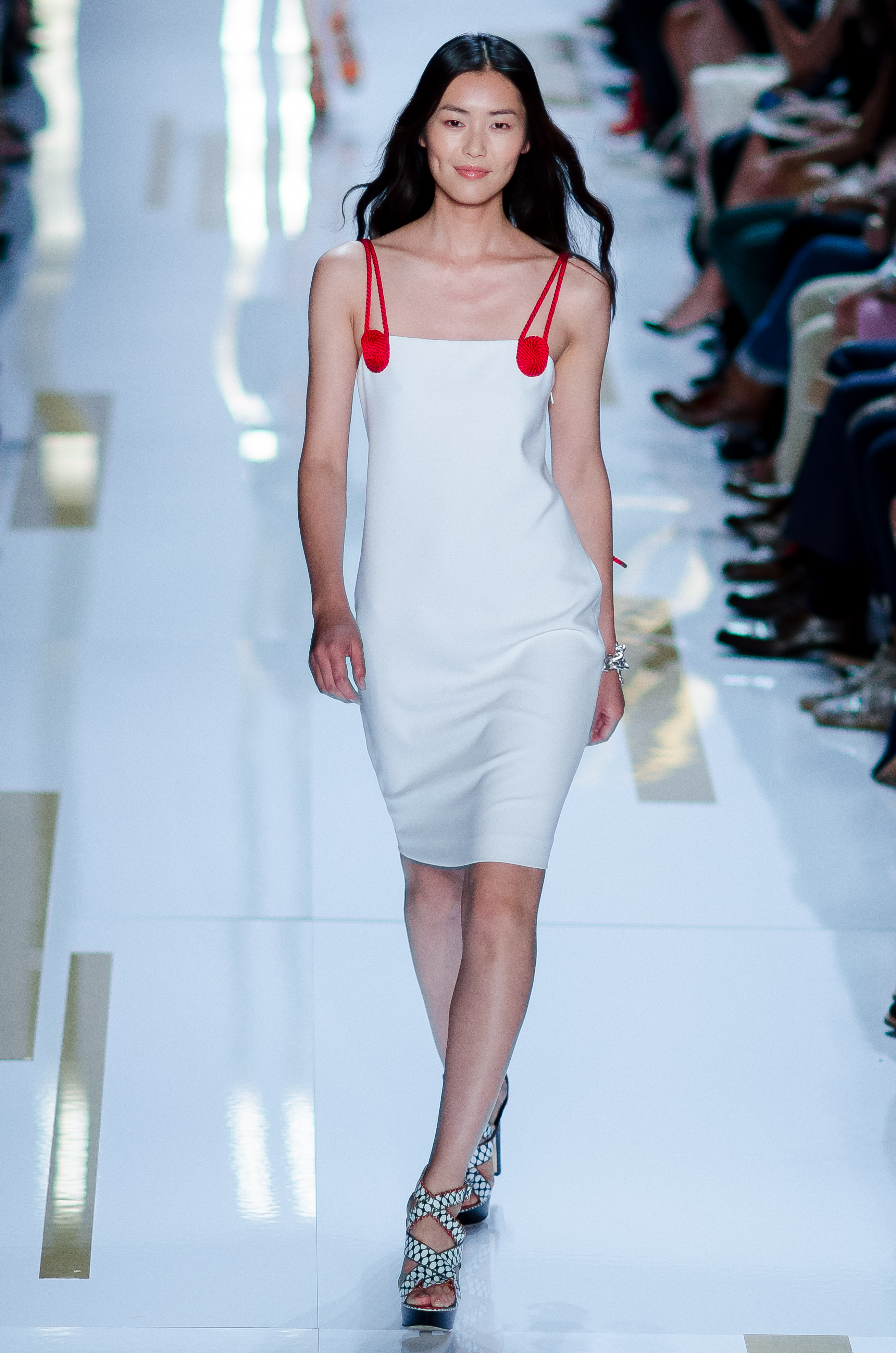 Liu Wen walks the runway at the Diane von Fürstenberg Spring/Summer 2014 show at New York Fashion Week, September 2013.